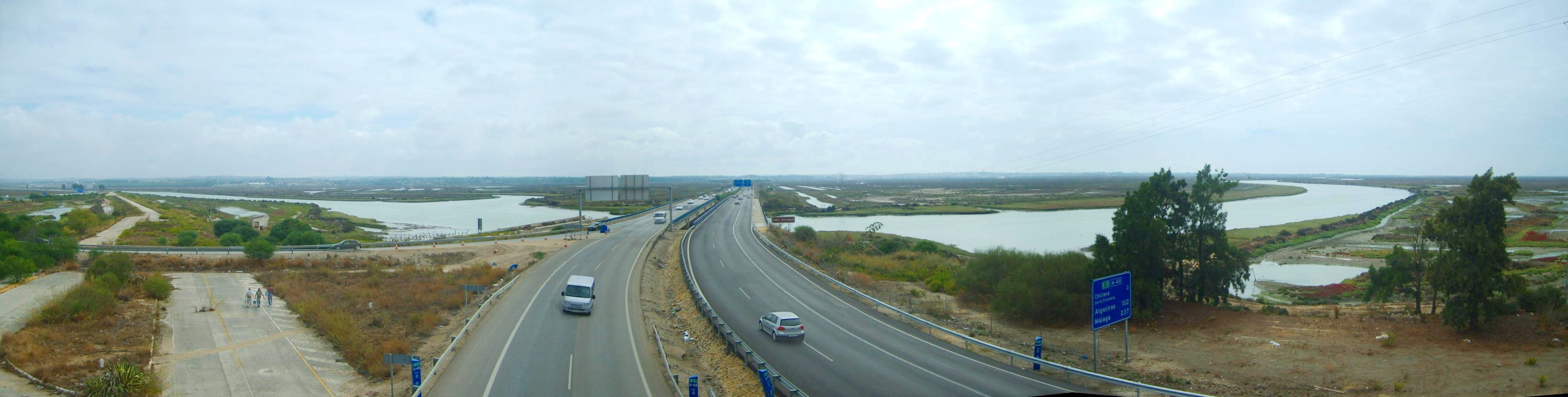 Caño Zurraque and E-5 and A-48 motorways' view, placed in Puerto Real, Cadiz.